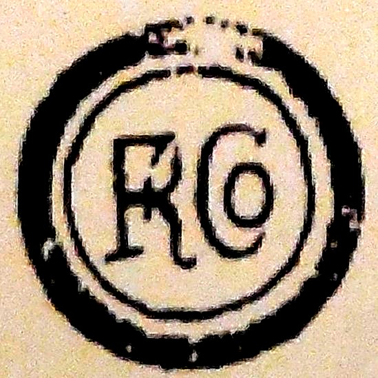 Seal of Otomo Shorin